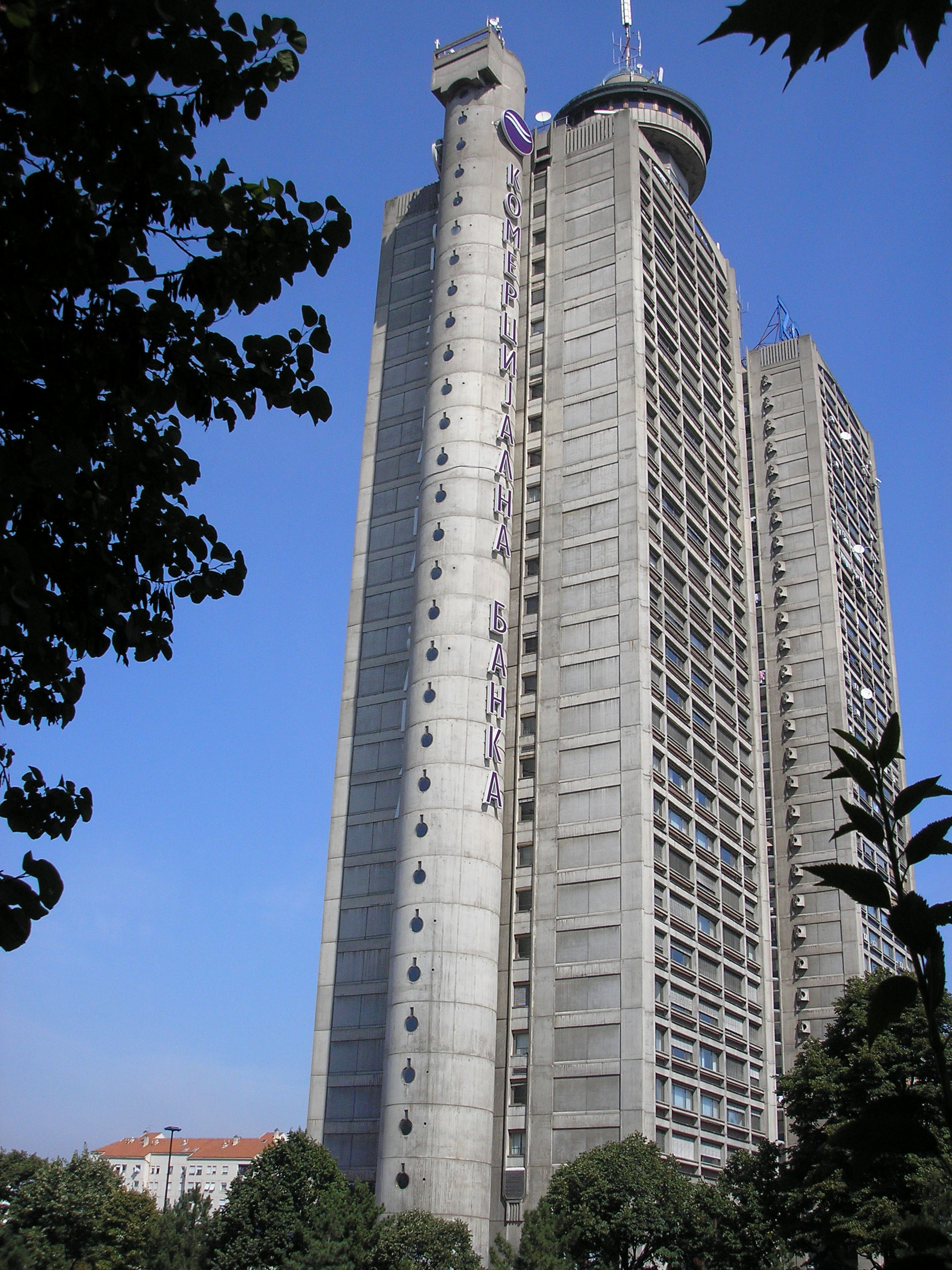 West Gate of Novi Beograd